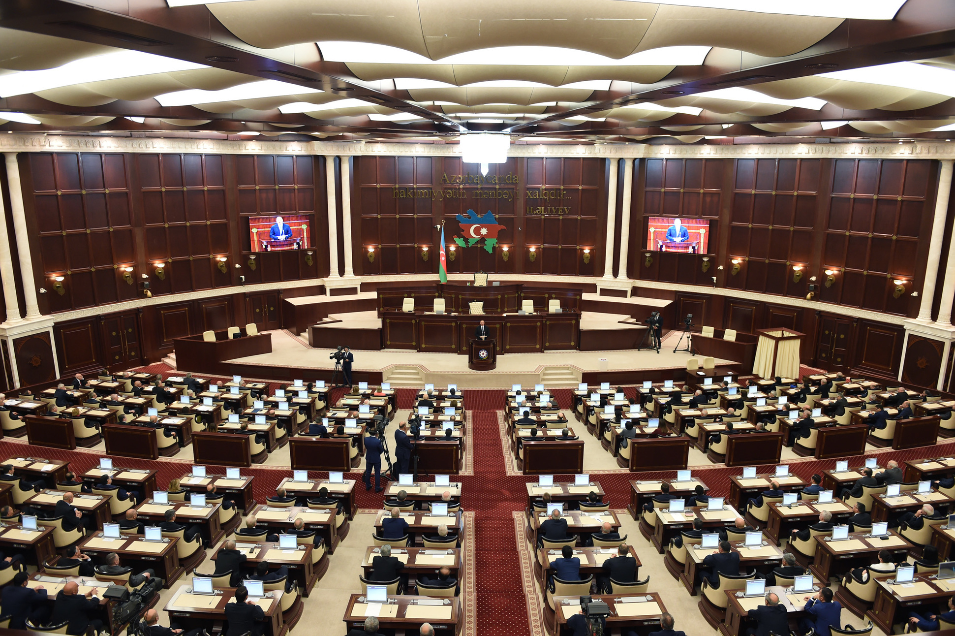 Ilham Aliyev attended the first session of the Azerbaijani Parliament's fifth convocation